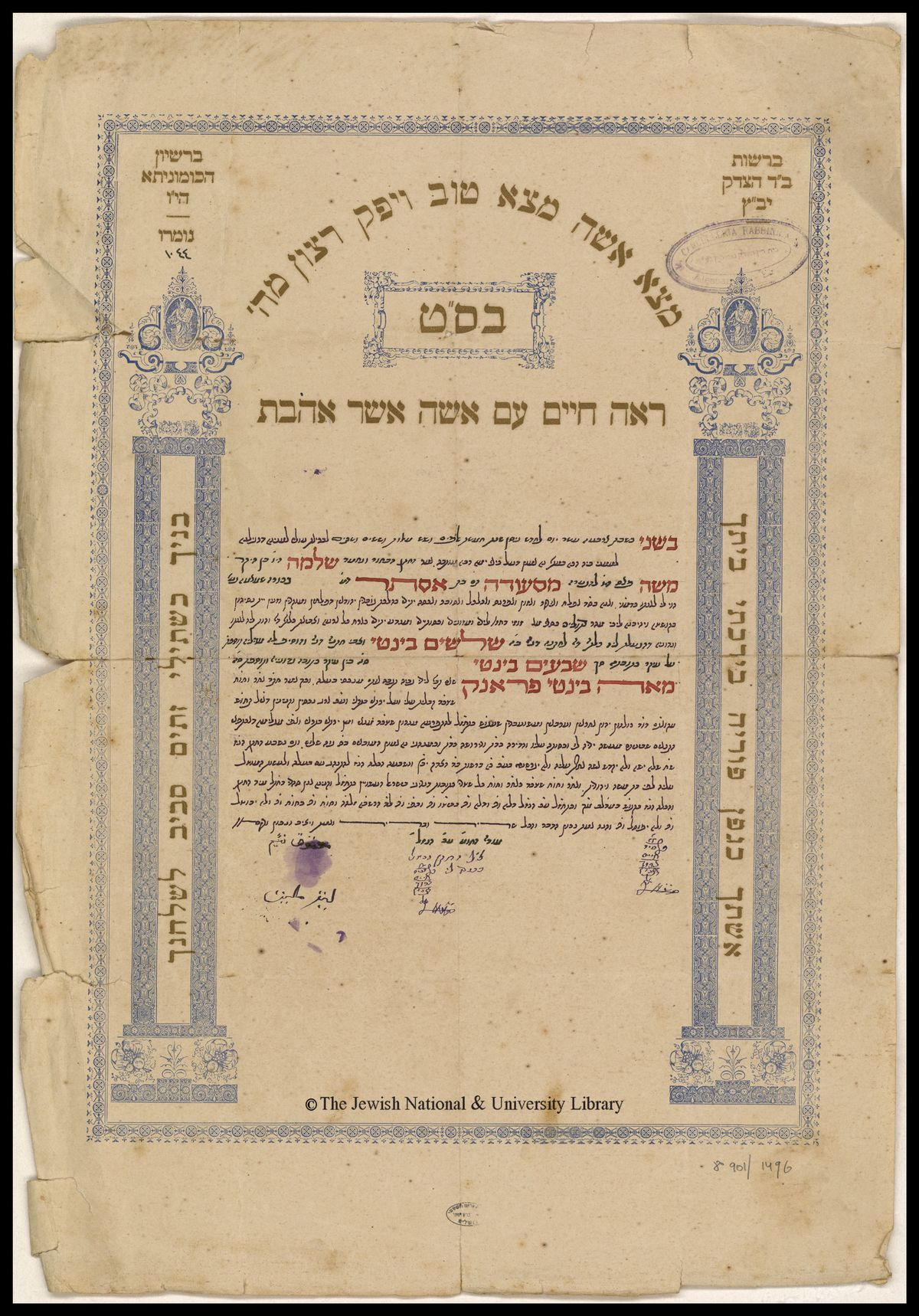 Ketubah from The Ketubot Collection of the National Library of Israel